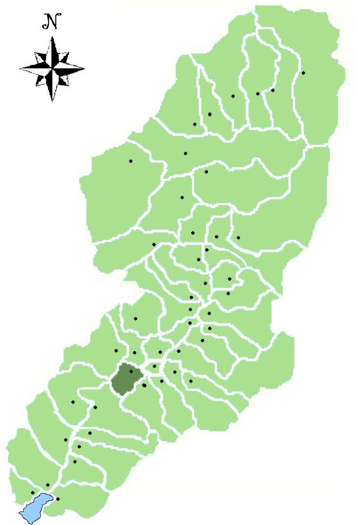 Map of the Comune di Piancogno, Valle Camonica